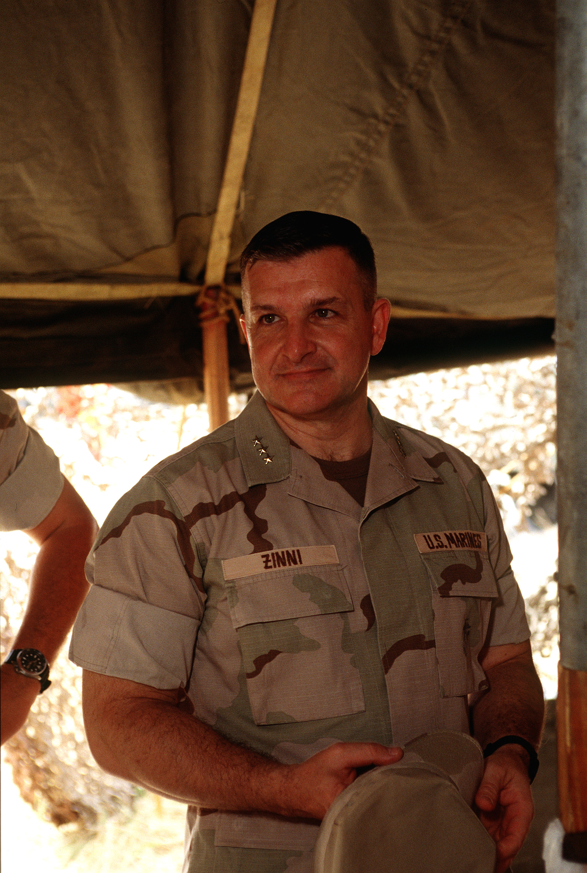 Lt. Gen. Anthony Zinni, Combined Task Force commander, US Marine Corps, listens to a brief at Moi International Airport. Lt. Gen. Zinni is briefed on the progress of US forces bringing in personnel, material and equipment to support the operation which is the withdrawal of United Nations peacekeepers from Mogadishu, Somalia.